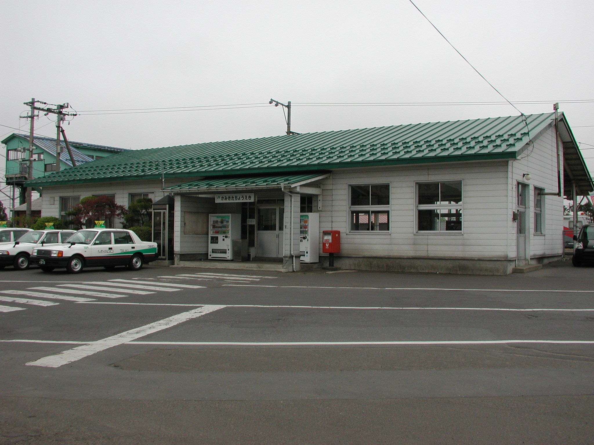 Kamikitacho Station